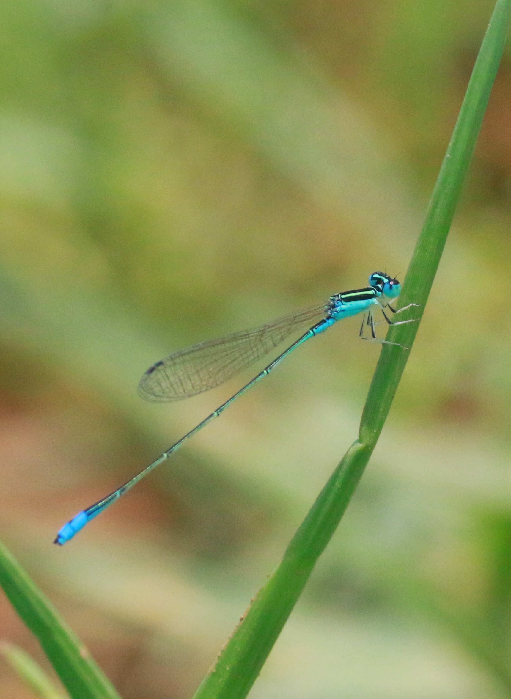 Green-striped Slender Dartlet,Aciagrion occidentale